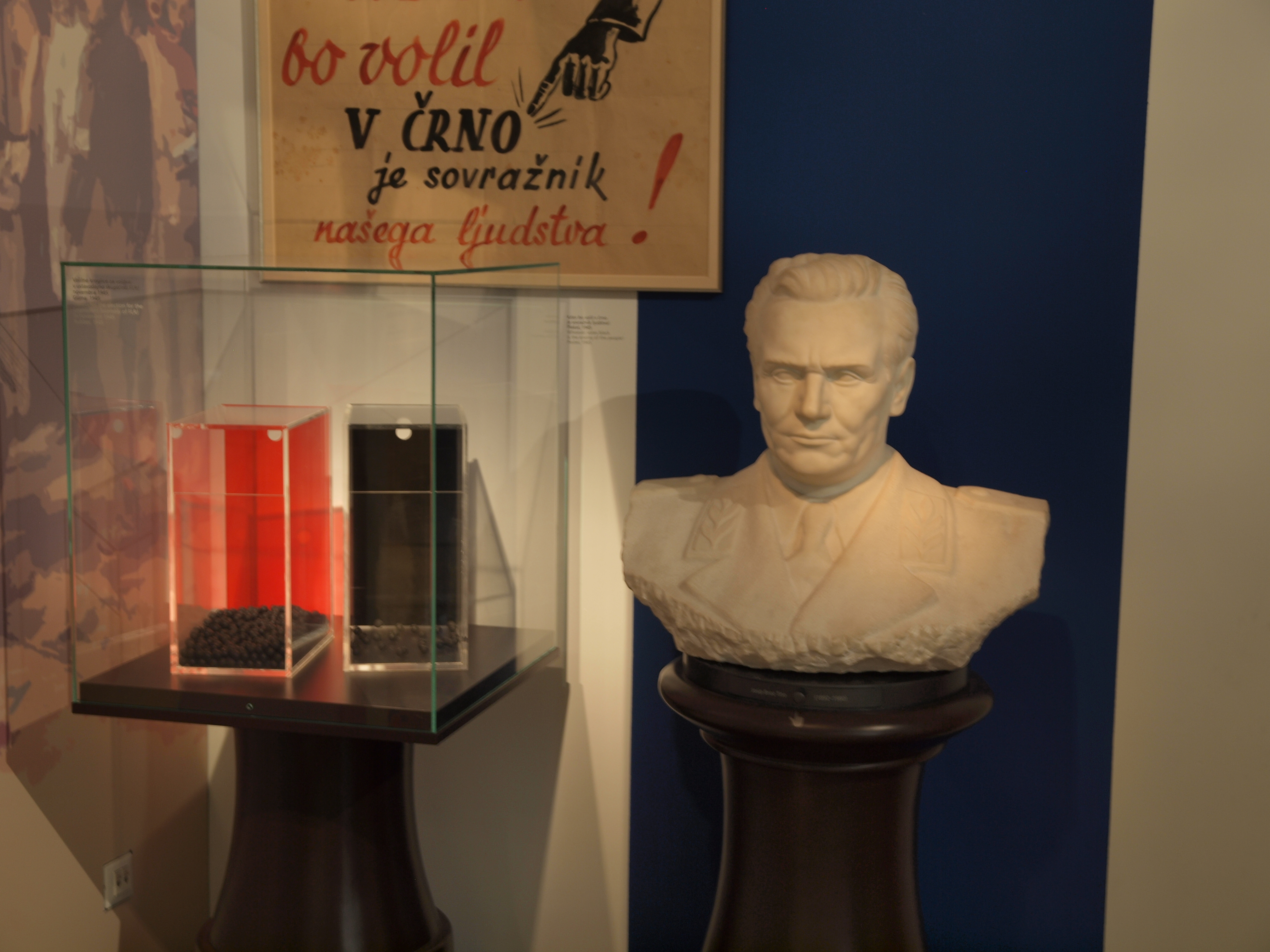 A museum exhibit in Ljubljana, Slovenia, with two voting boxes, one red and one black with a sign apparently saying "He who votes black is an enemy of our people", and a bust of Josip Broz Tito.